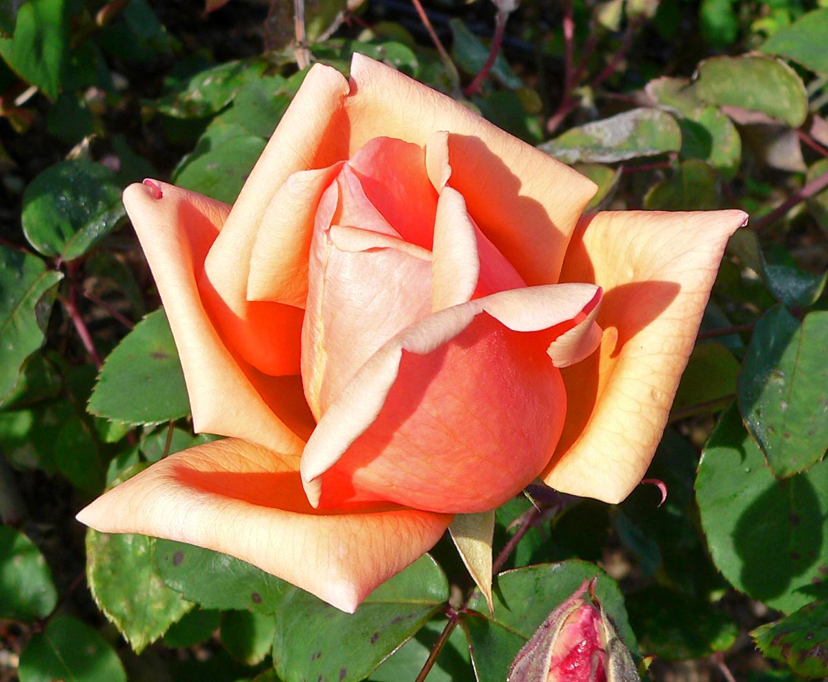 Photo of Rosa 'Mme Abel Chatenay' at the San Jose Heritage Rose Garden